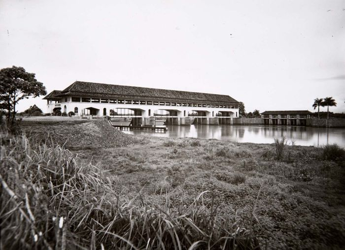 Dam in the Citarum river near Walahar